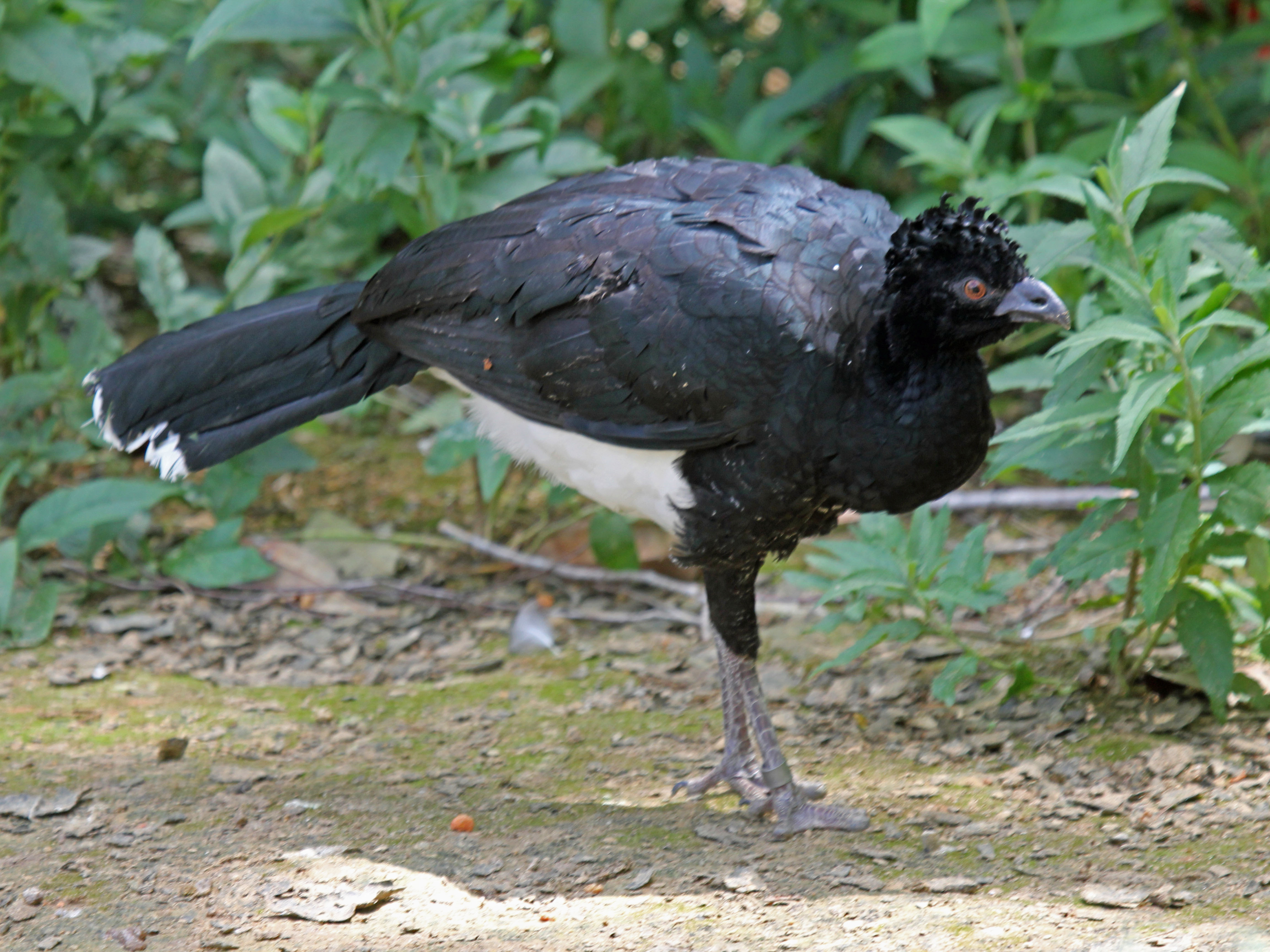 Female Yellow-knobbed Curassow (Crax daubentoni) - Sylvan Heights Waterfowl Park, Scotland Neck, North Carolina